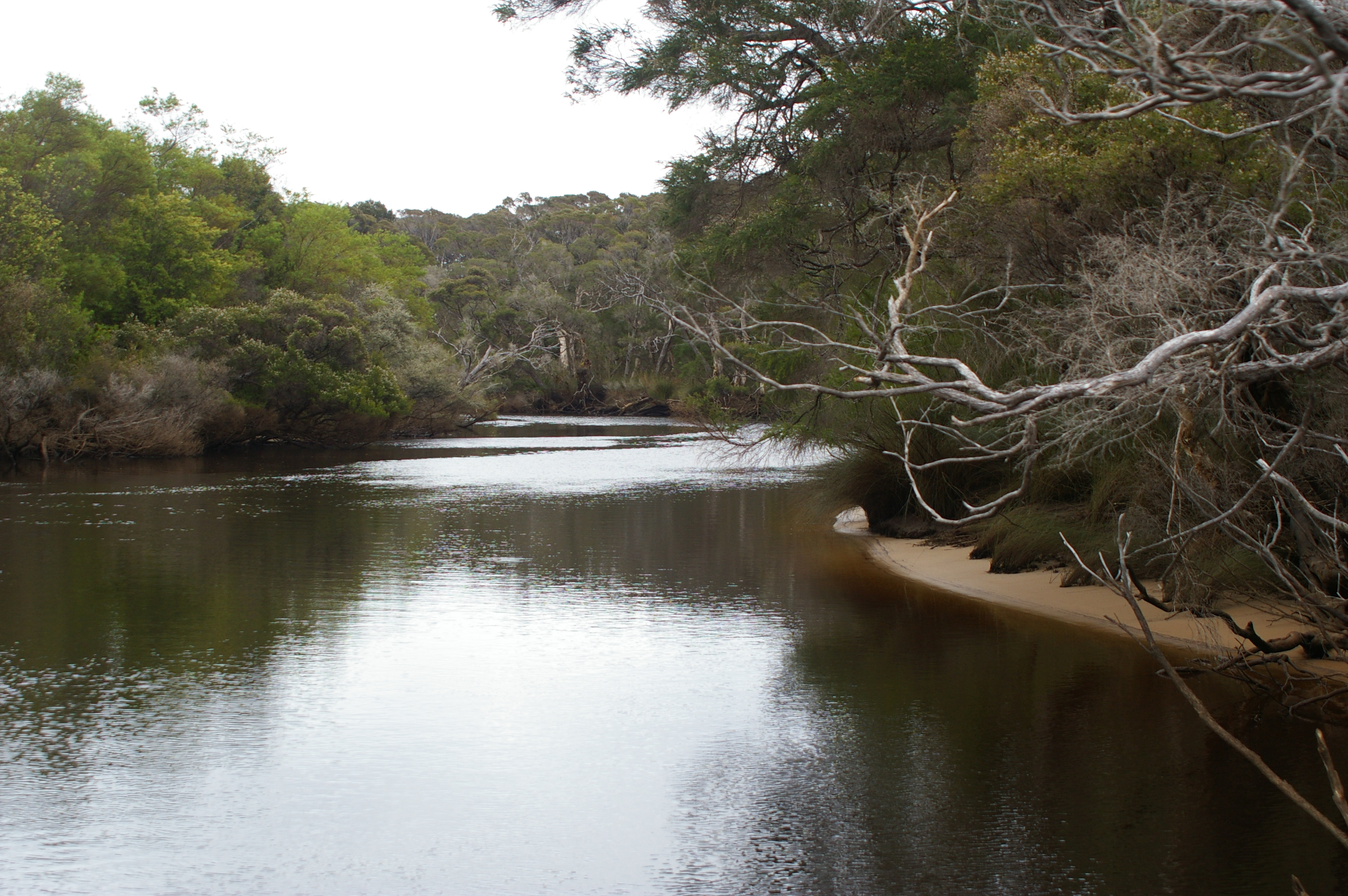 Photo taken about 6km from mouth of Donnelly River travelling downriver